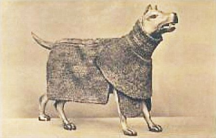 A German 17th century war dog (represented by a statue) in protective armour, consisting of chain mail and steel helmet. Formerly in the Rüstkammer Collection of Wartburg Castle, Germany.